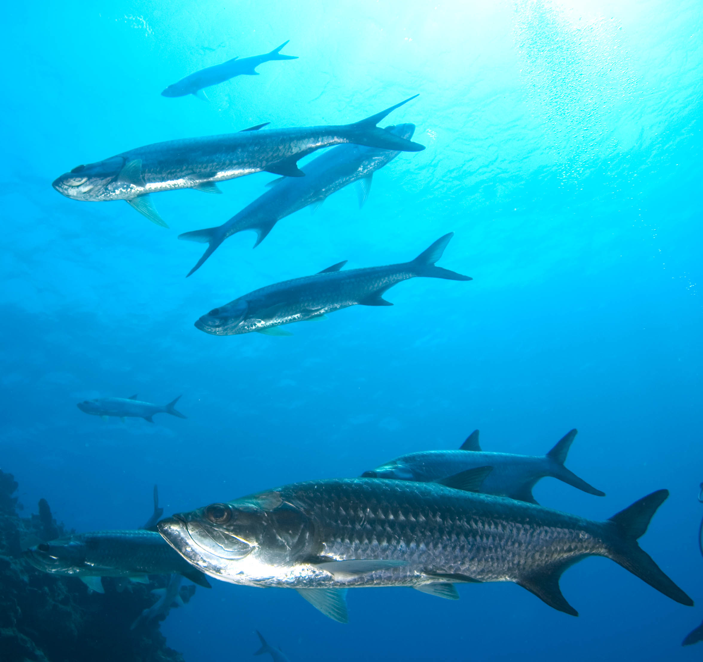 Megalops atlanticus